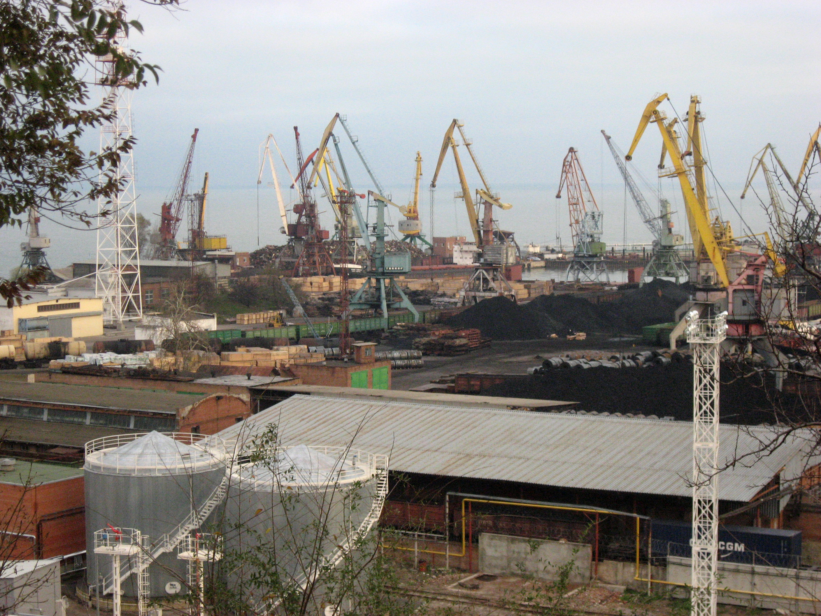 Port of Taganrog